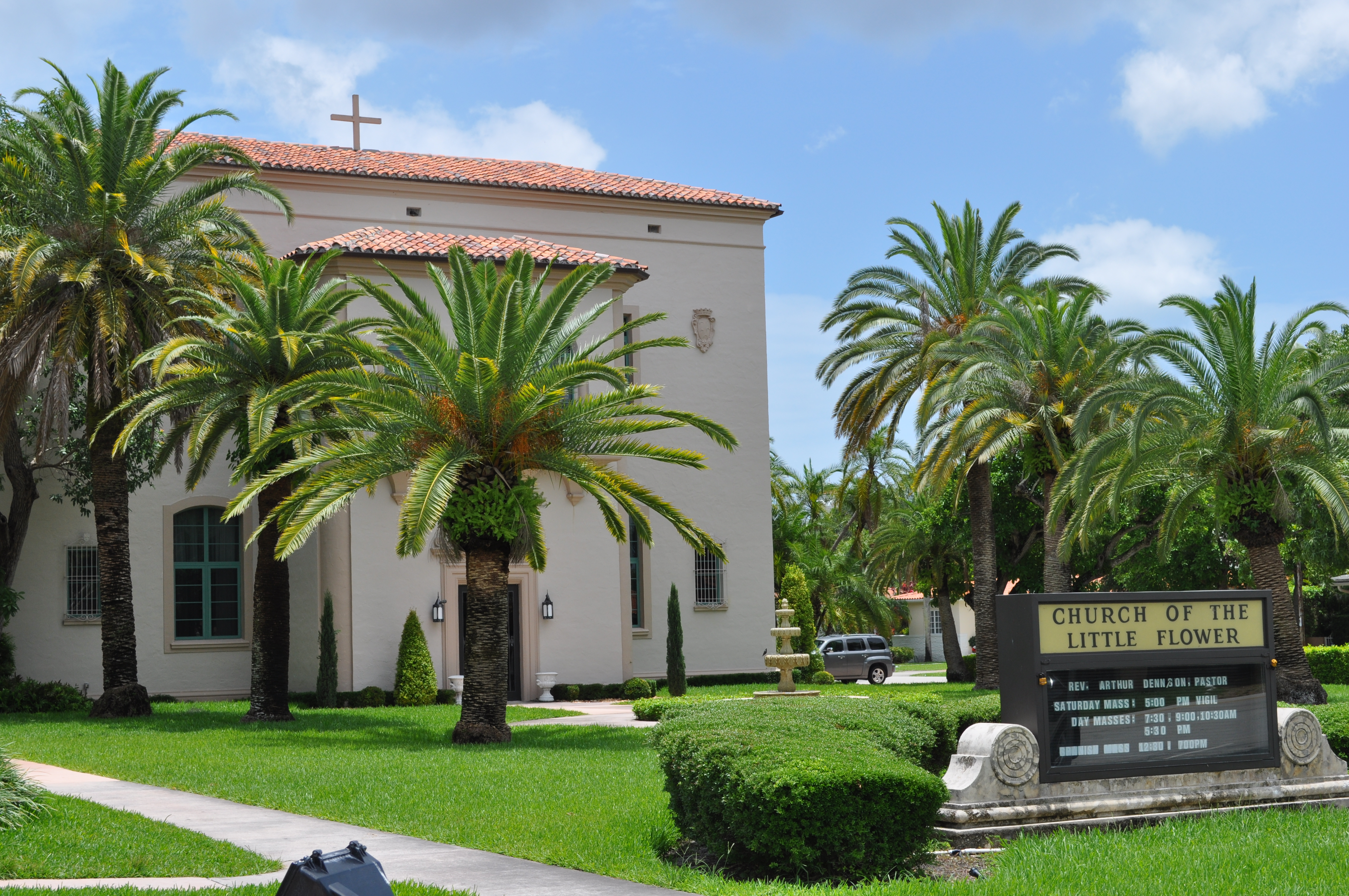 Comber Hall, part of Church of the Little Flower in Coral Gables, Florida, is often used for wedding and other receptions.